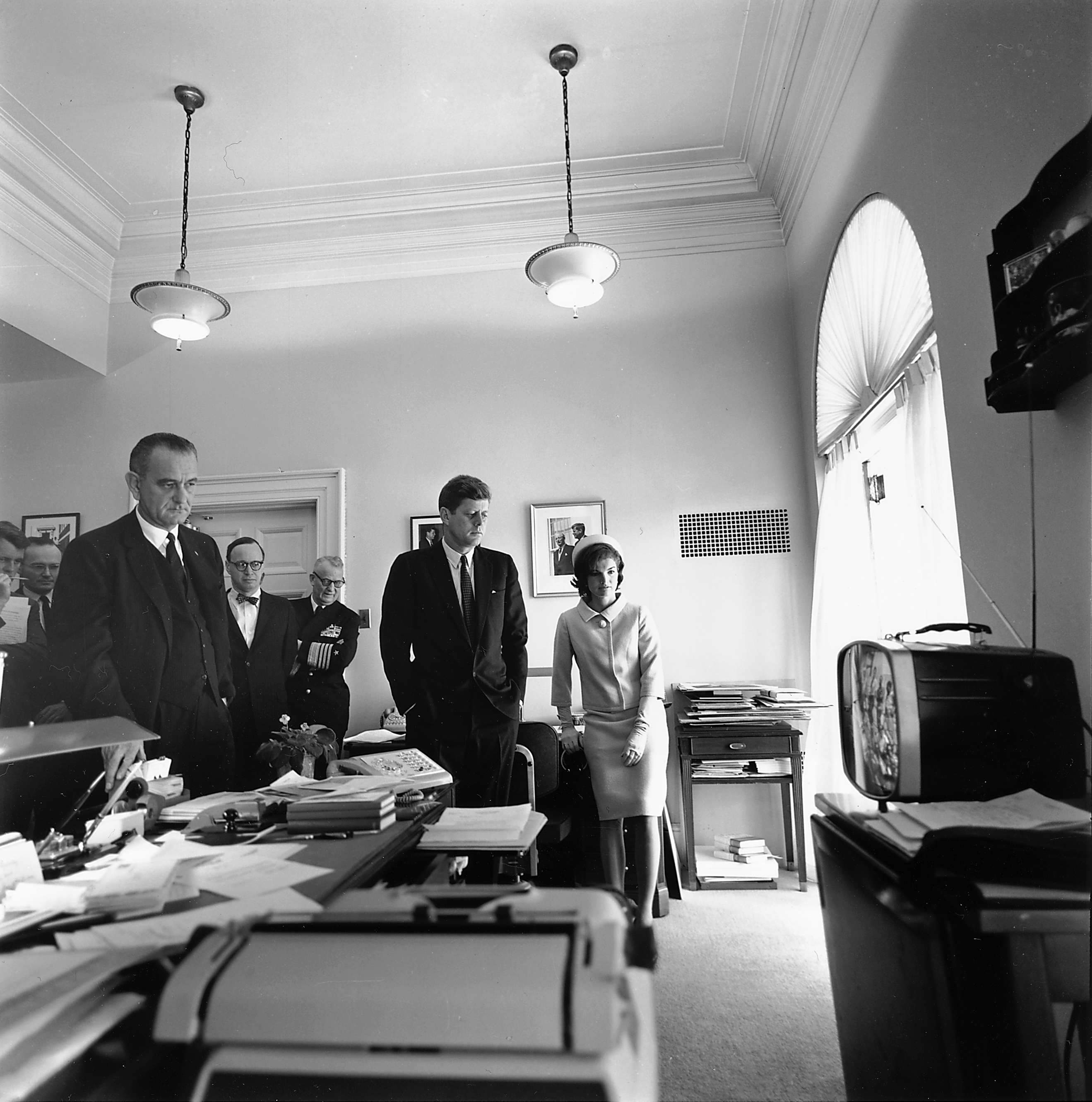 John F. Kennedy, Lyndon B. Johnson, Jacqueline Kennedy, and others watching flight of Astronaut Alan Shepard on television.